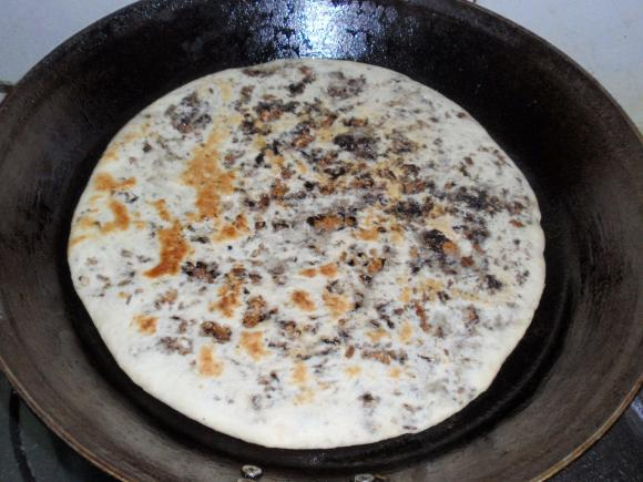 霉干菜饼，赤溪特产